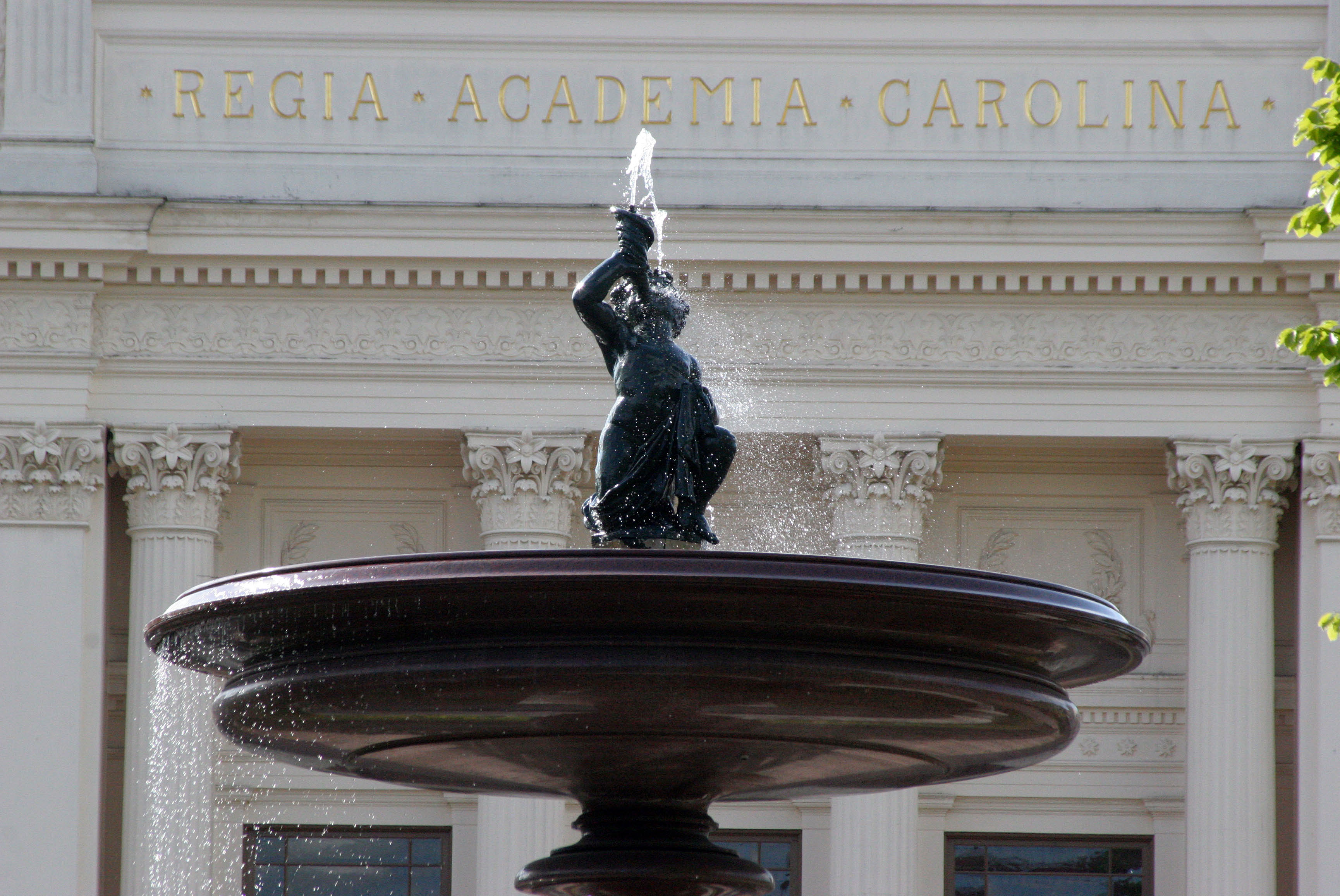 Detail from the main building at the University of Lund